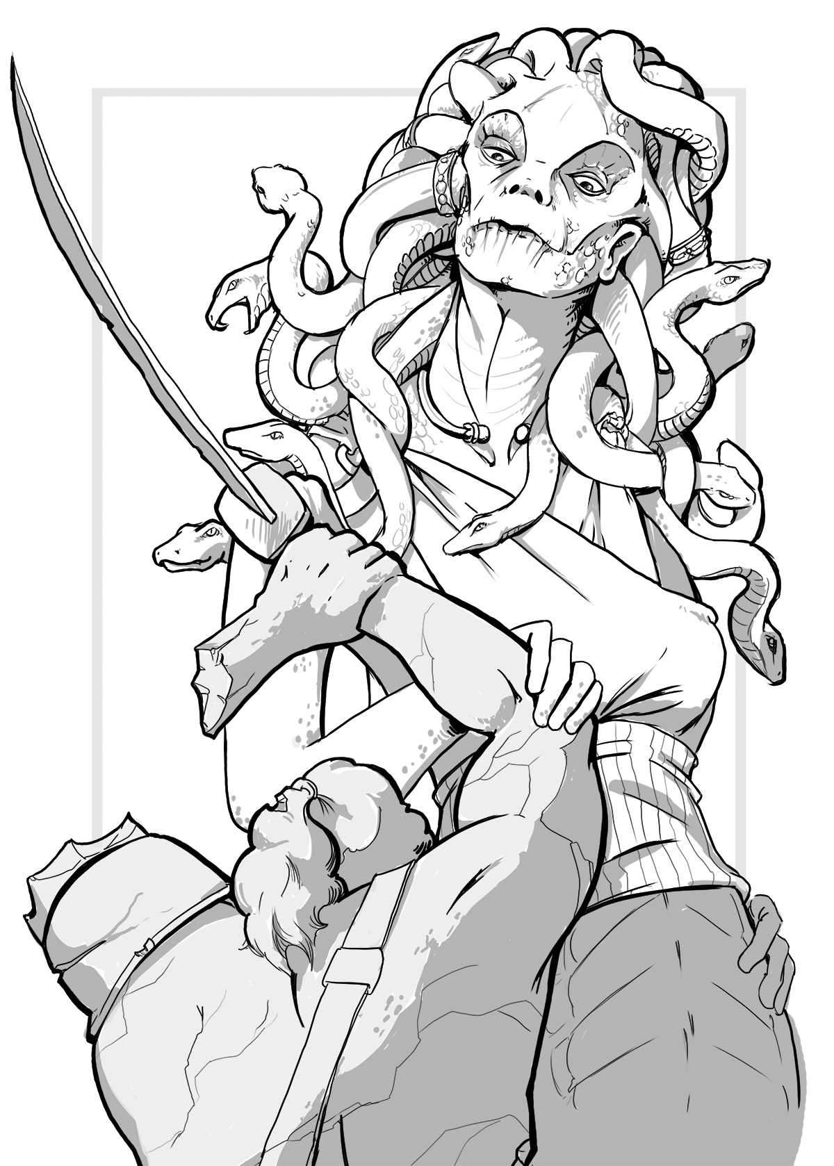 In the Dungeons & Dragons fantasy role-playing game, Medusas resemble their mythological counterparts